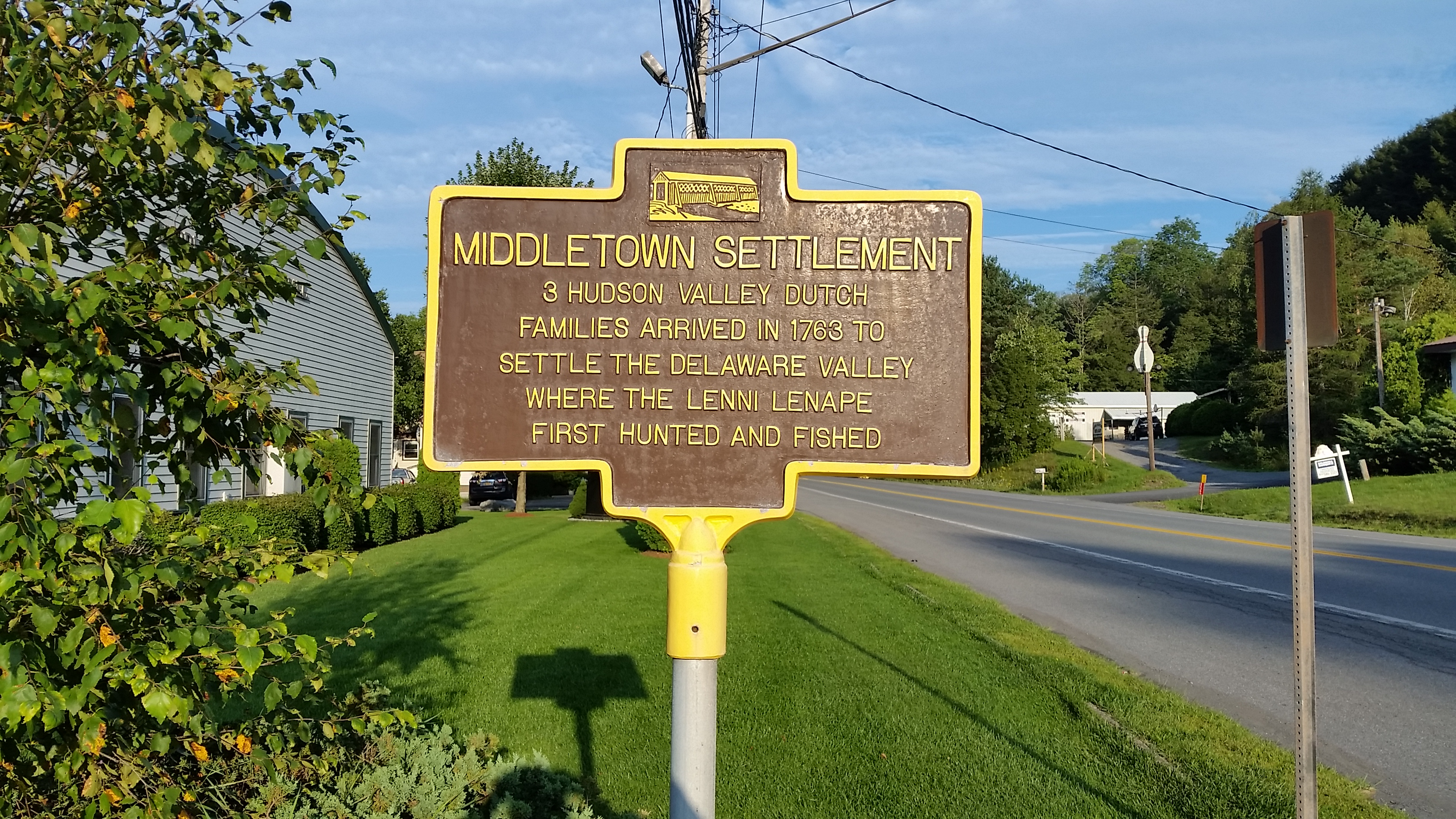 New York State historic marker for the town of Middletown, NY (the one in Delaware County, not Orange County)